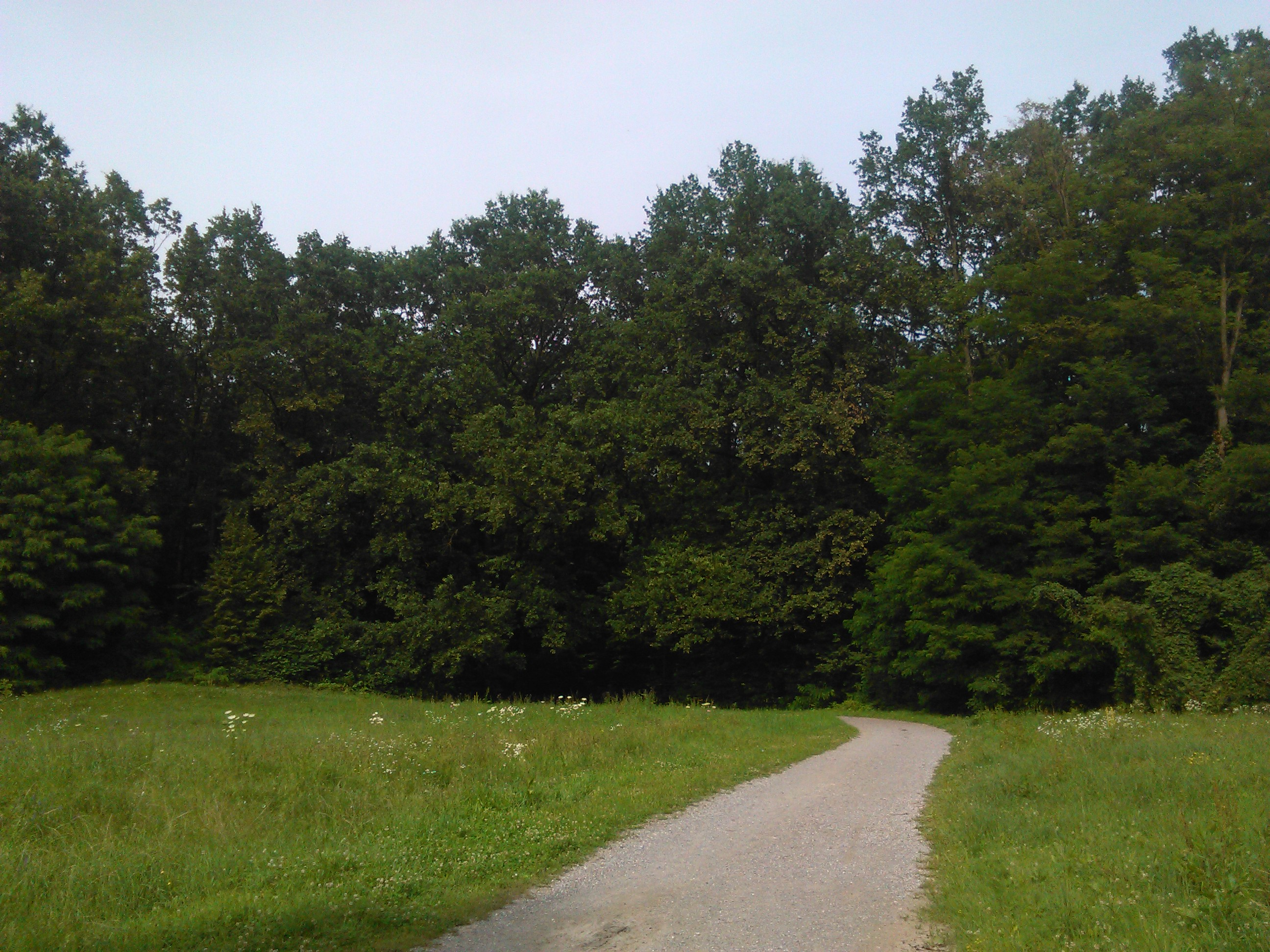 Budenec Forest, Croatia.